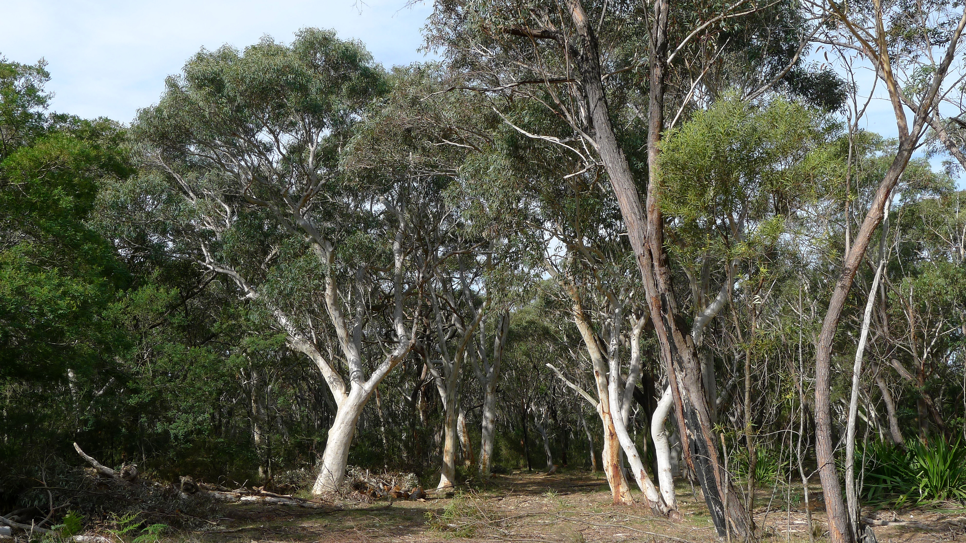 Northern Scribbly Gum, Eucalyptus signata. Royal National Park, NSW Australia, August 2013.